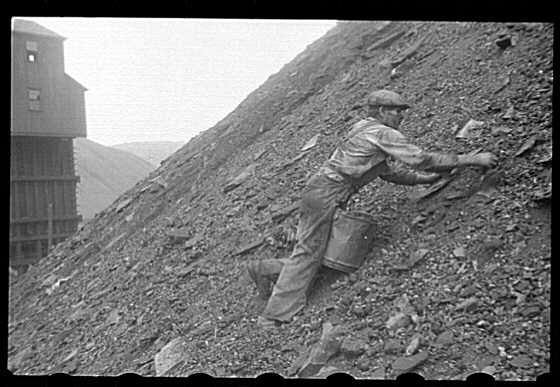 In the Great Depression coal pickers like this one working on a rock dump in Nanty Glo could earn as much as a dollar a day for the usable coal they could salvage from the mountain of second-rate rejected 'rock.' The 1937 photo is from the Library of Congress collection.